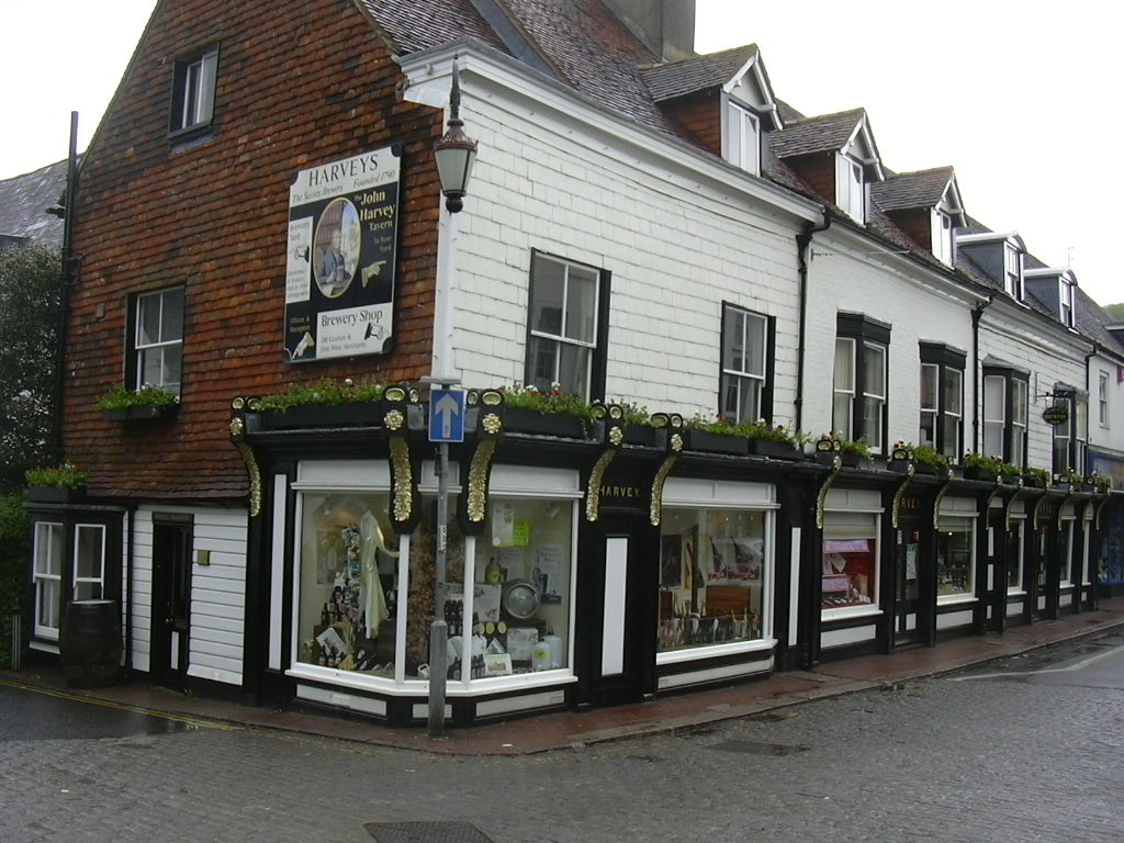 Harveys brewery shop in Cliffe High Street, Lewes, England